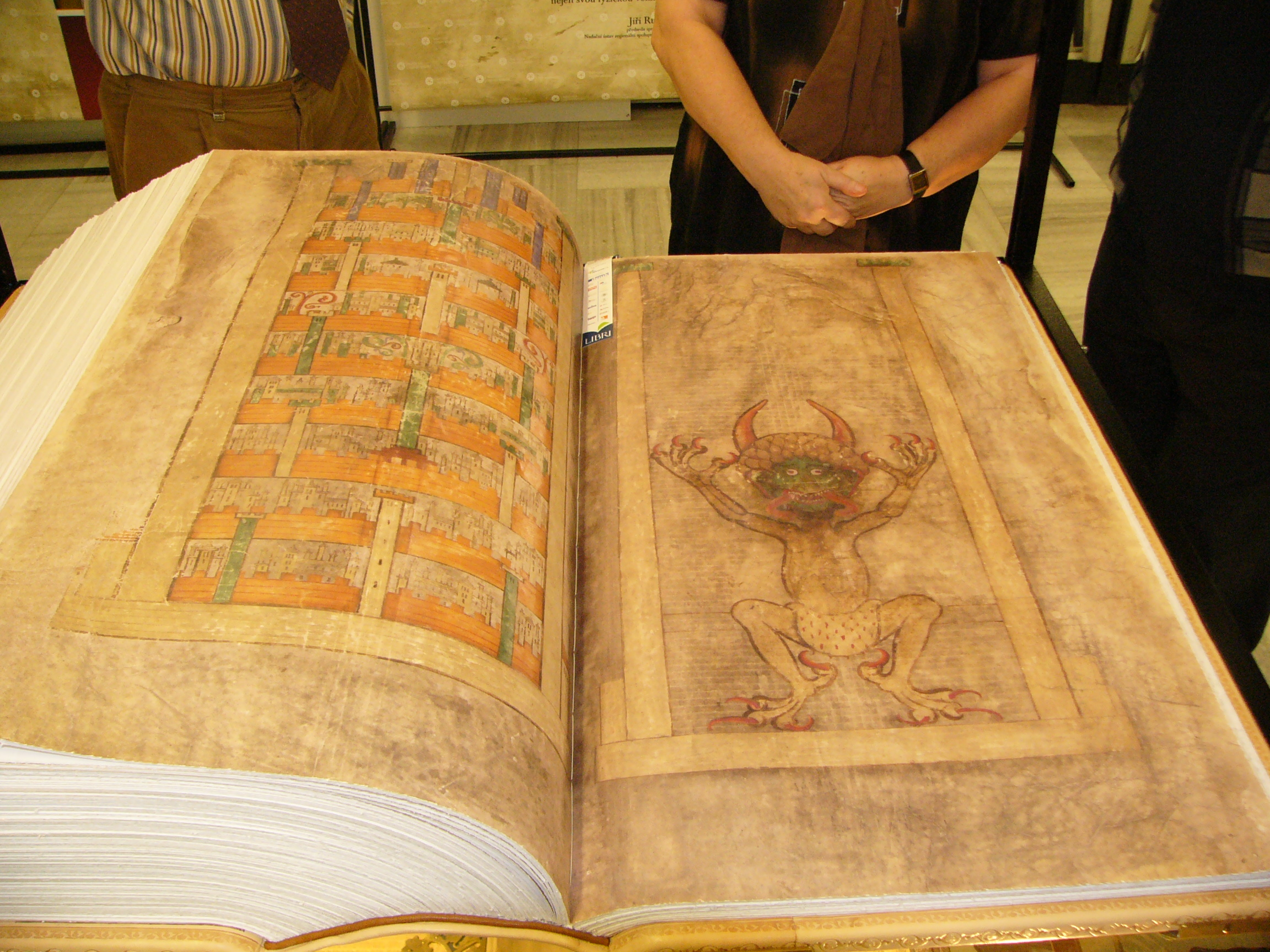 real-size facsimile of Codex Gigas